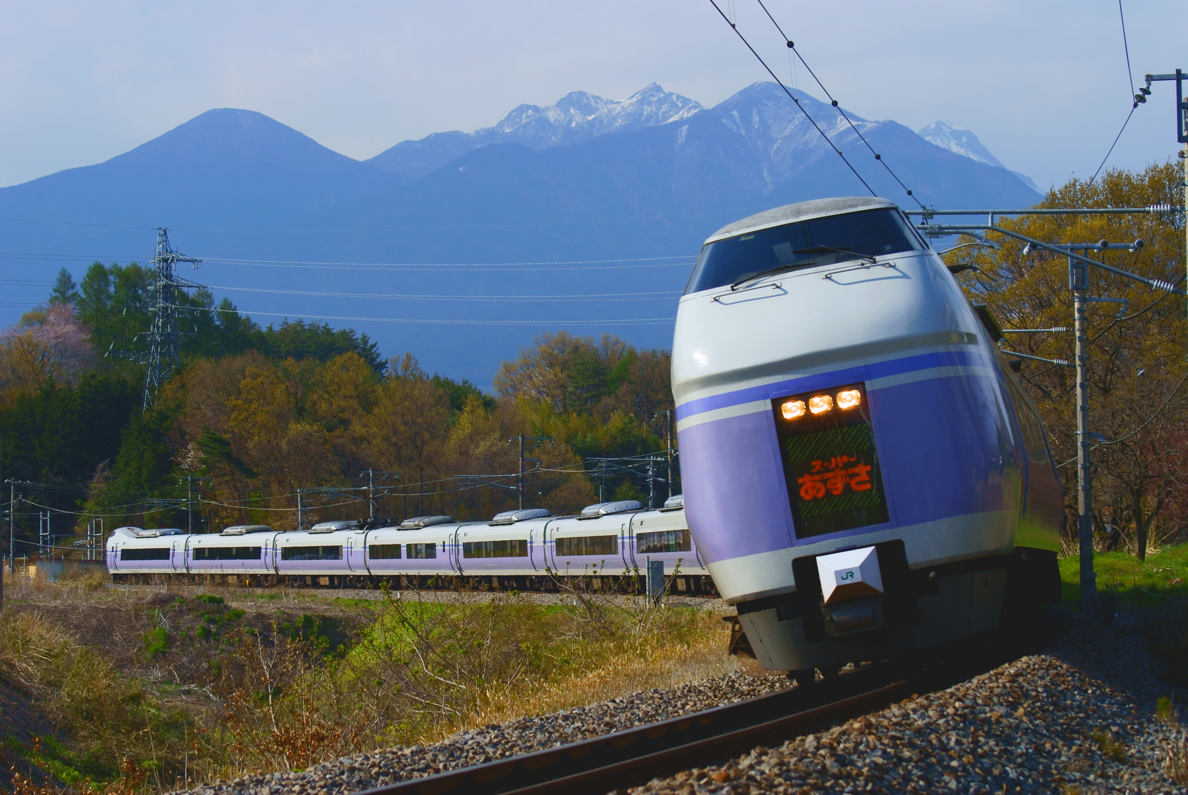 The "Super Azusa" limited express be going in the foothills of Mt. "Yatsugatake".